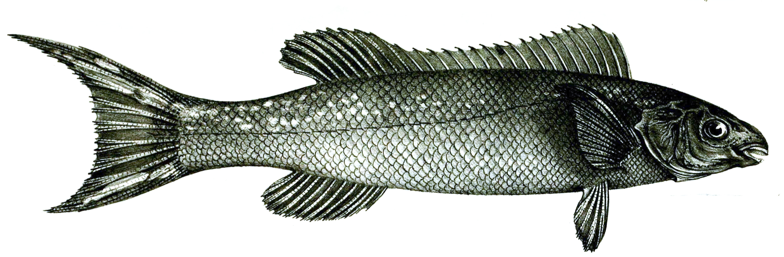 Olisthops cyanomelas